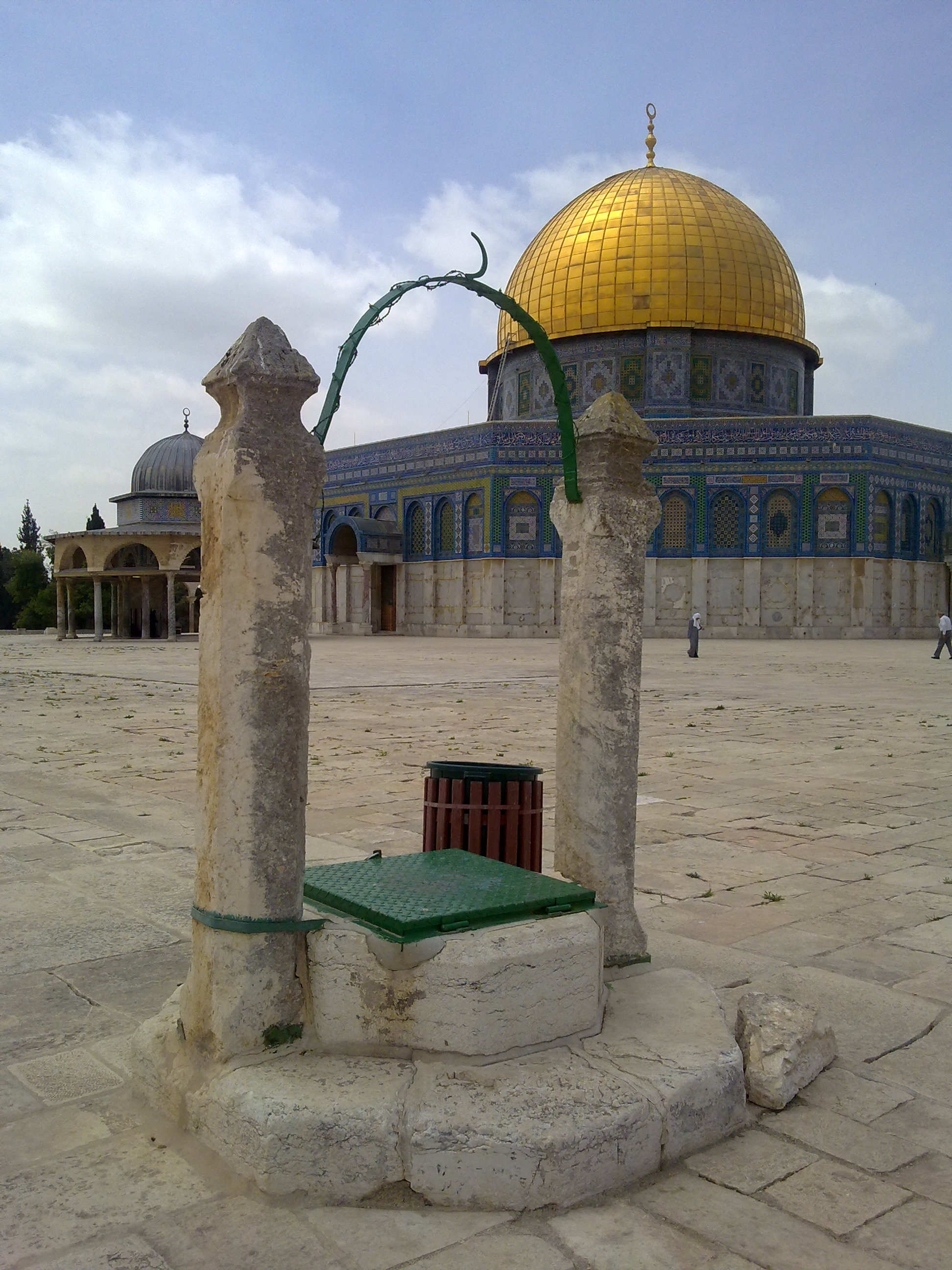 Al-Aqsa Mosque